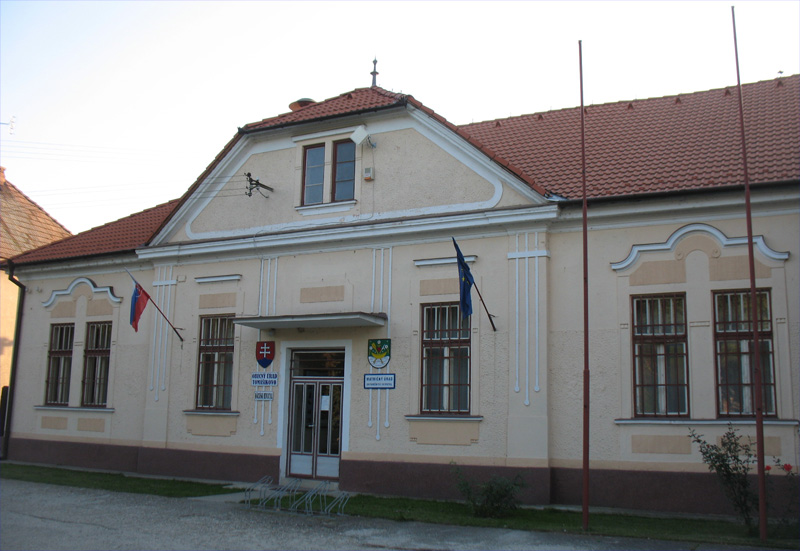 Tomášikovo